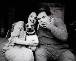 Still from Fatty's Plucky Pup (1915) with Josephine Stevens and Roscoe Arbuckle.